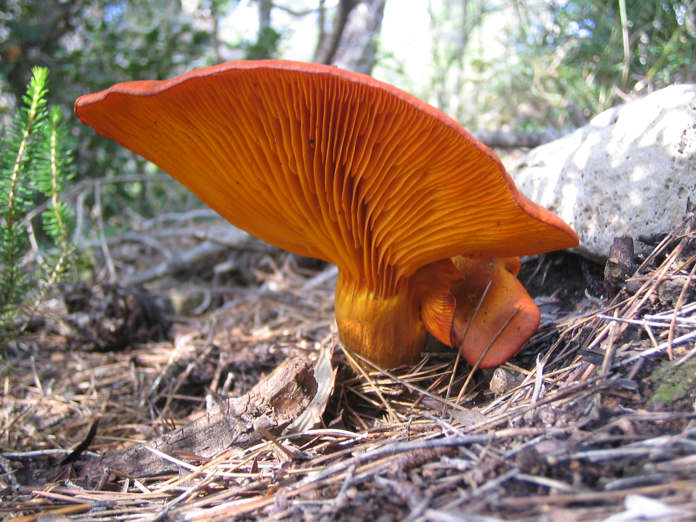 Orange mushroom (maybe Hygrophoropsis aurantiaca of the family Hygrophoropsidaceae, or possibly an Omphalotus olearius, family of Omphalotaceae) found at Serra de Tramuntana in Majorca, Balearic Islands, Spain.